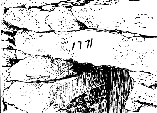 Date 1771 inscribed on the facing of the entrance lintel in a dry stone hut located at Grans, in the Bouches-du-Rhône département, France. Drawing by Christian Lassure.